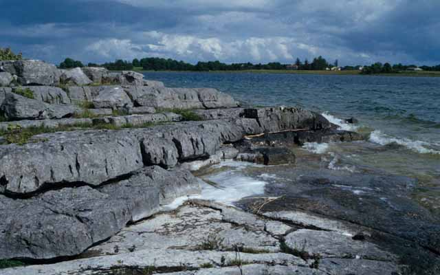 Limestone ledges at Lough Carra Lough Carra is just one of many Irish lakes which are underlain by limestone. The water here is so hard that shells and plant stems are quite quickly encrusted with 'lime-scale' (calcite).